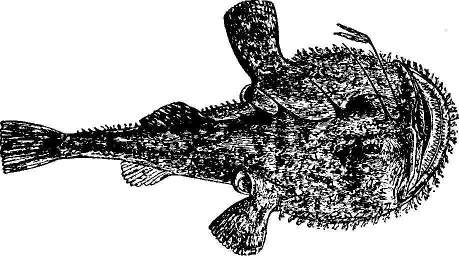 The Angler (Lophius piscatorius)